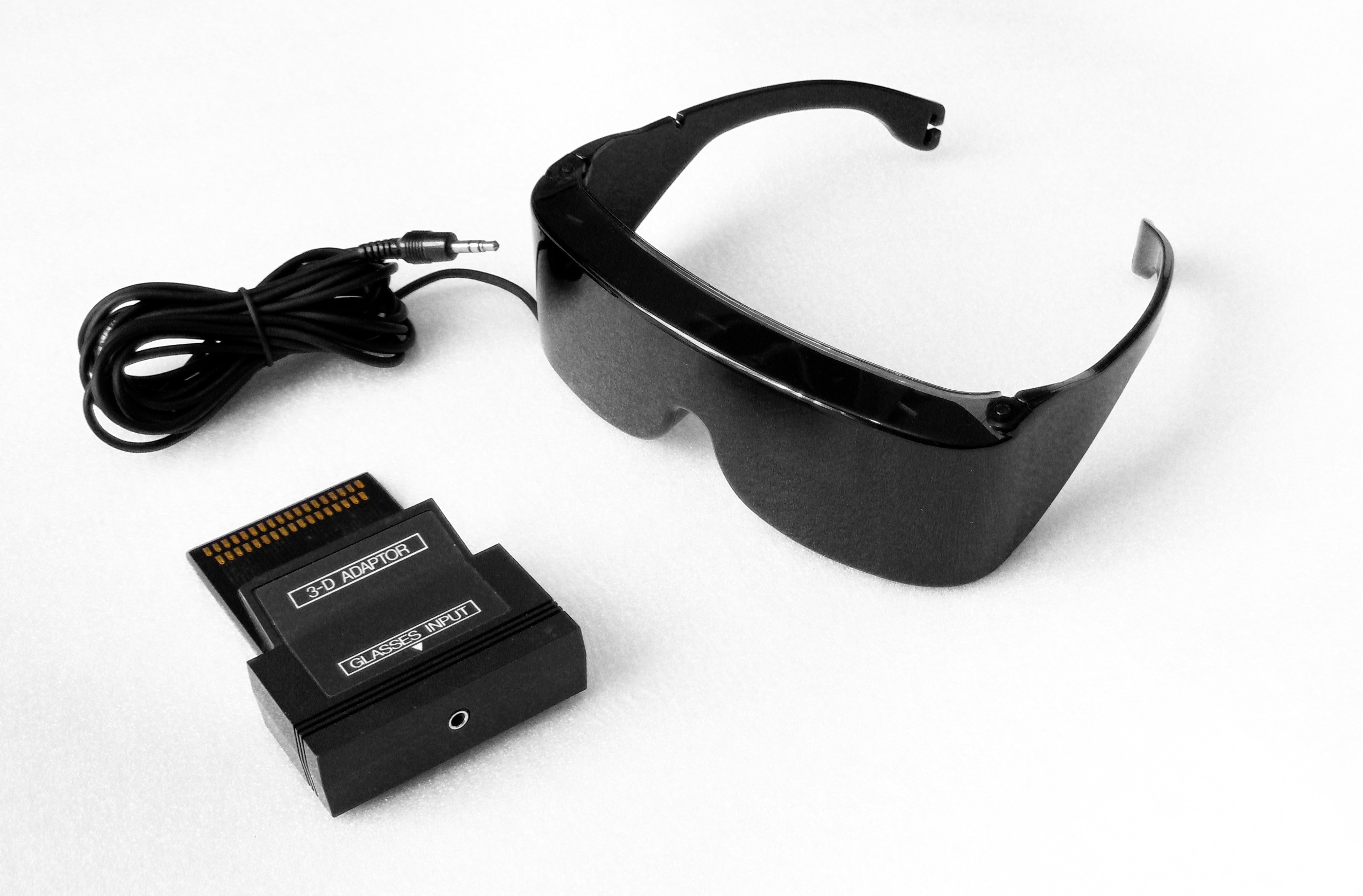 Sega Scope 3D glasses for the Sega Master System.